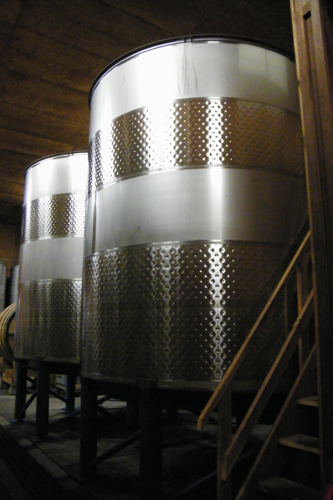 Wine tanks at Grgich Hills Estate, Napa, California